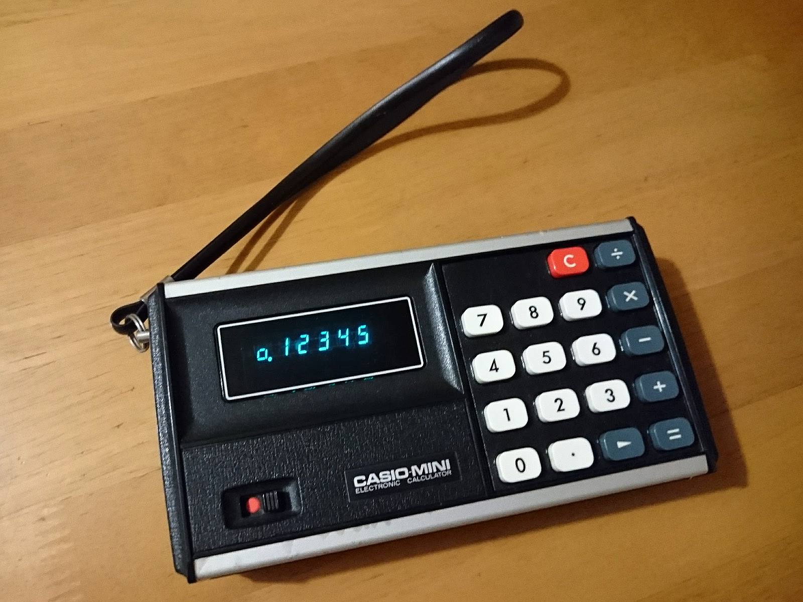 CASIO MINI CM-603 electronic calculator (1973).